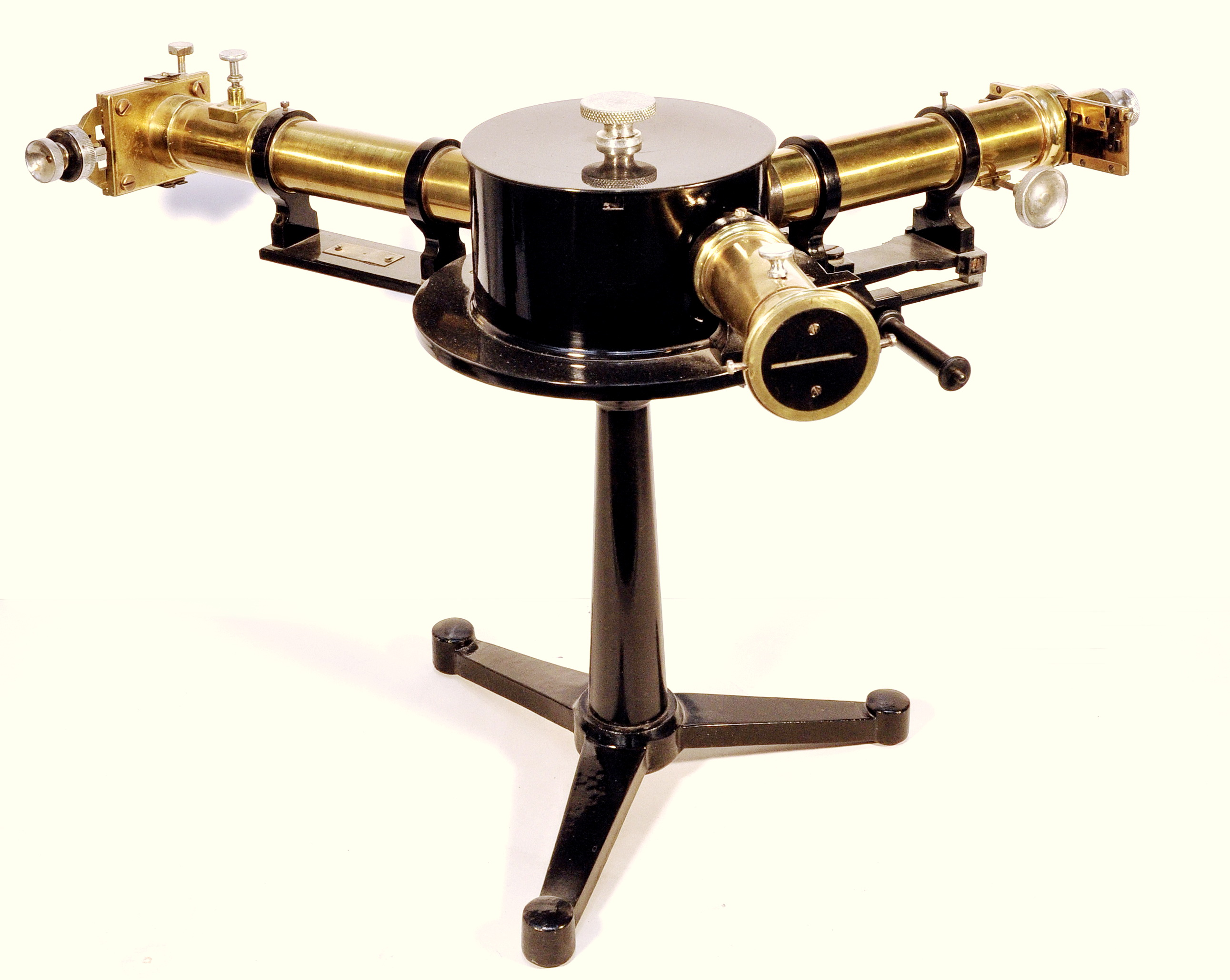 Spectrophotometer. It is located in Museum of Science and Technology Belgrade.